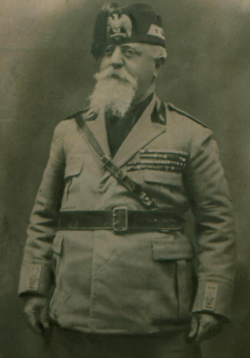 Posed Photo of Gen. Andrea Graziani